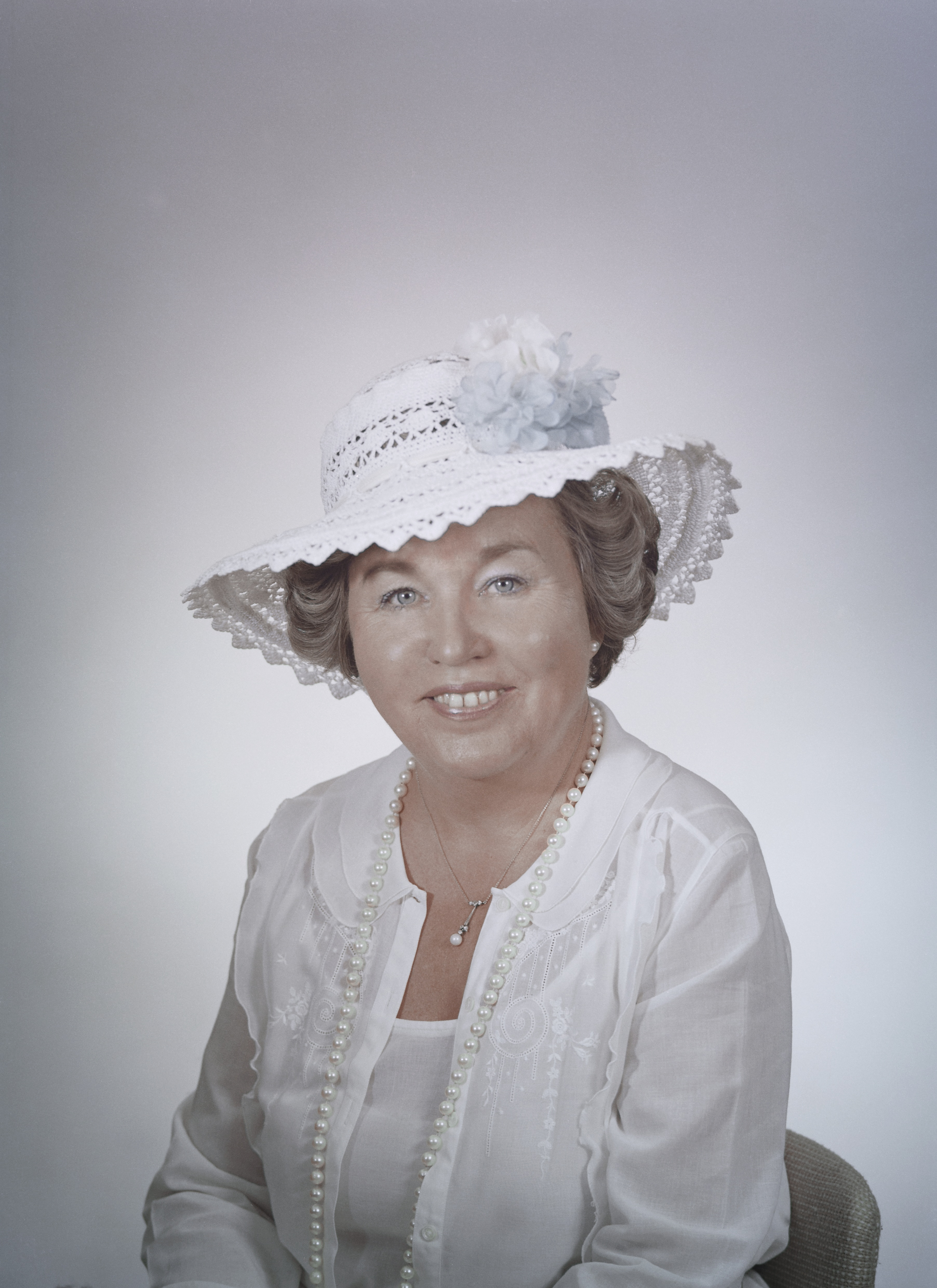 Photograph of the Finnish restaurant owner and entrepreneur Ragni Rissanen (1938–).